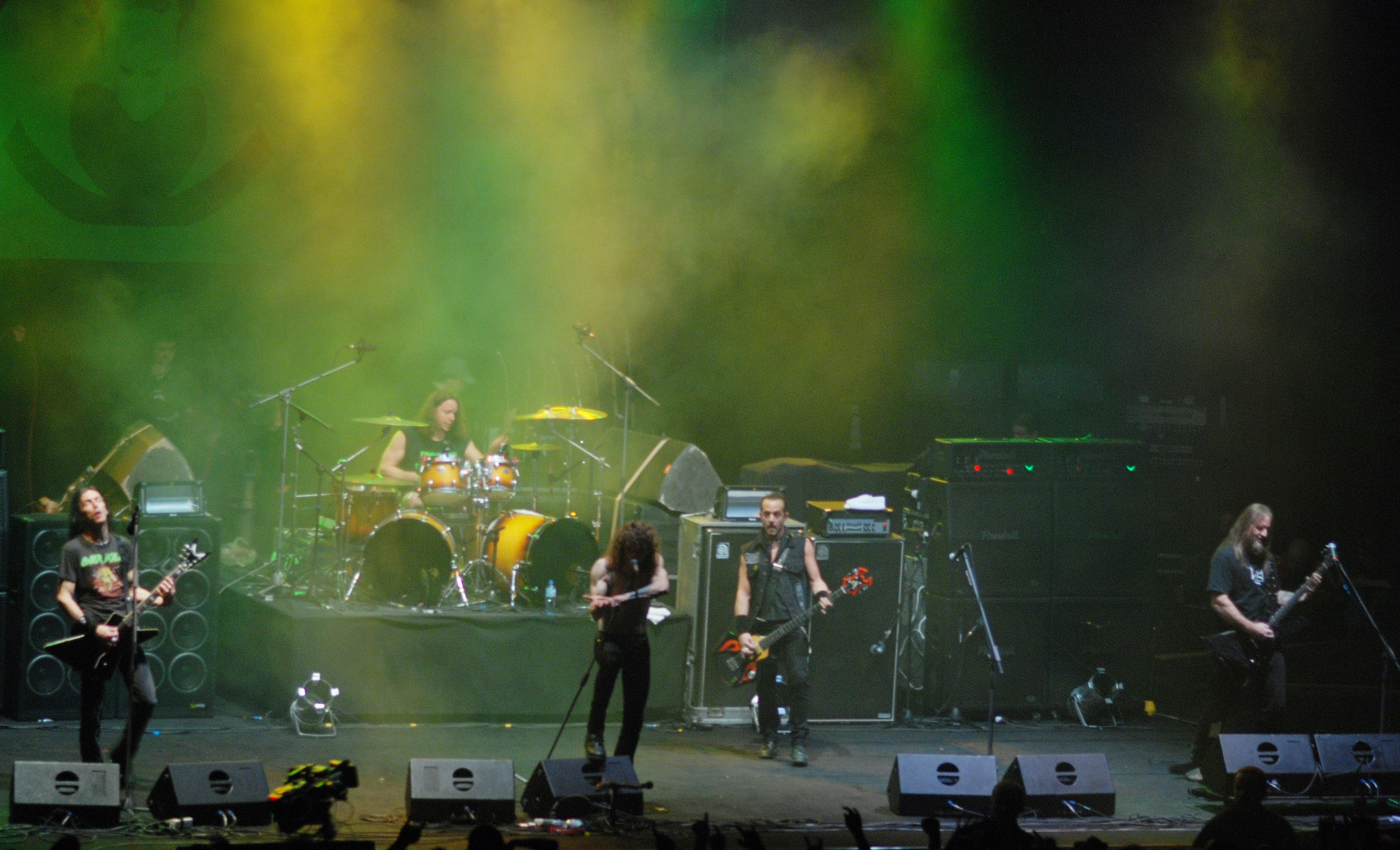 Overkill during Metalmania 2008 festival